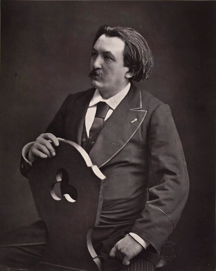 Gustave Doré's Portrait, par Nadar.